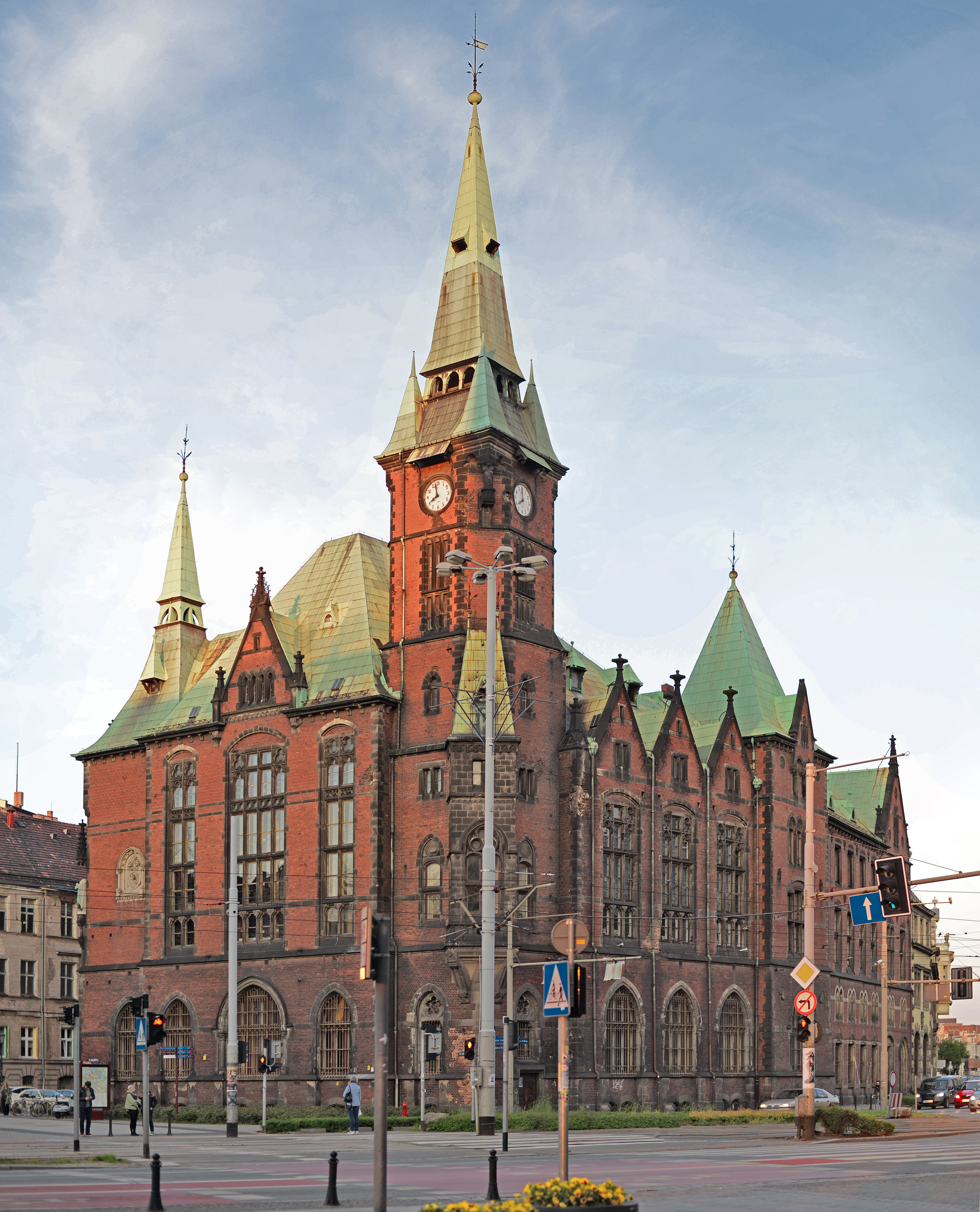 Wroclaw University Library